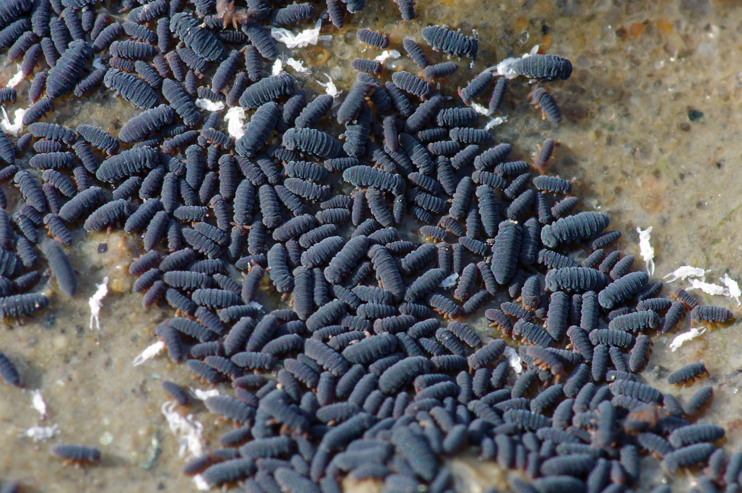 Mass accumulation of springtail Podura aquatica on the drift edge of a pond. Between the tiny creatures, you can see white skinning leftovers.